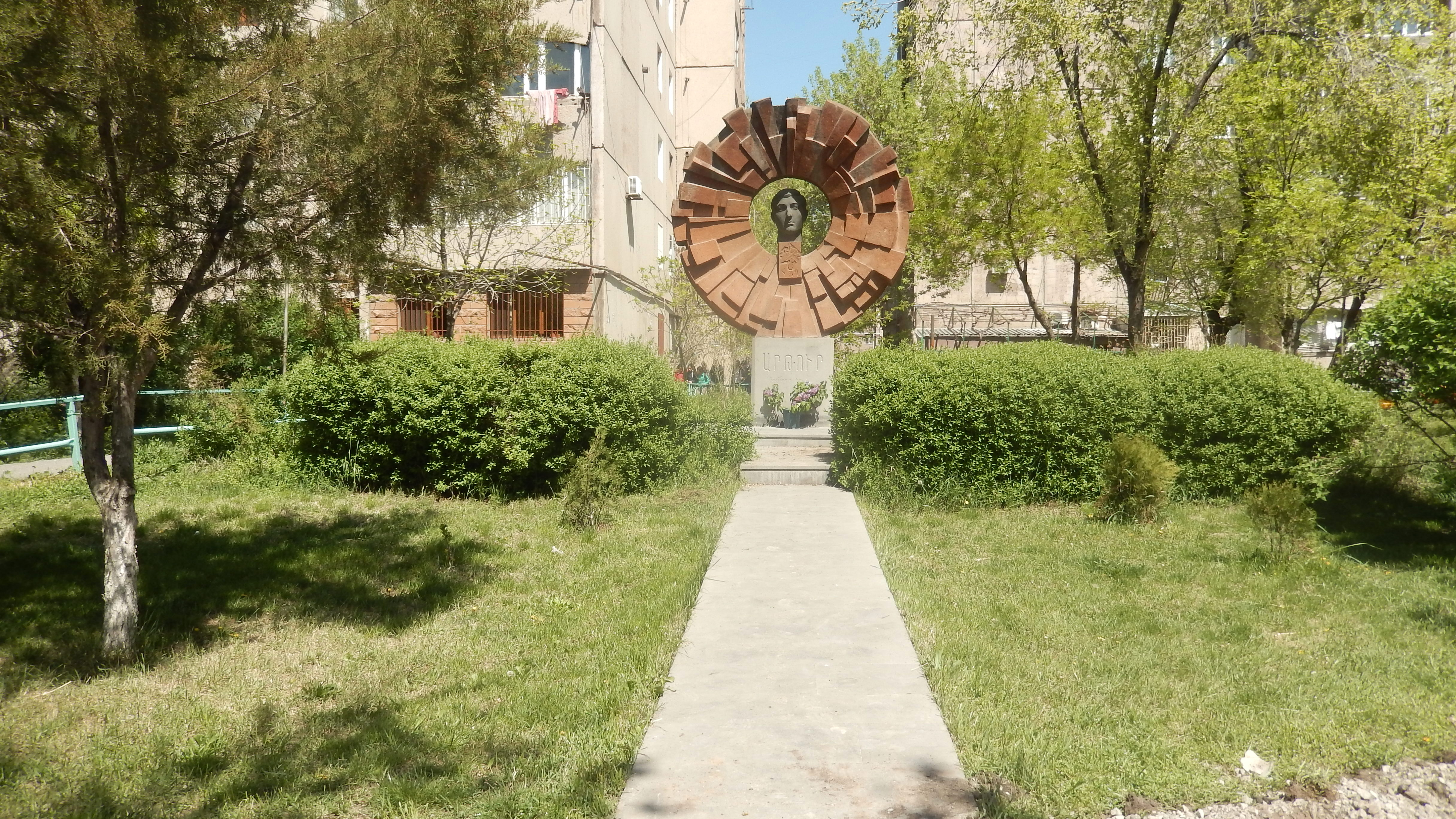 Arthur Karapetyan's Park, Shengavit